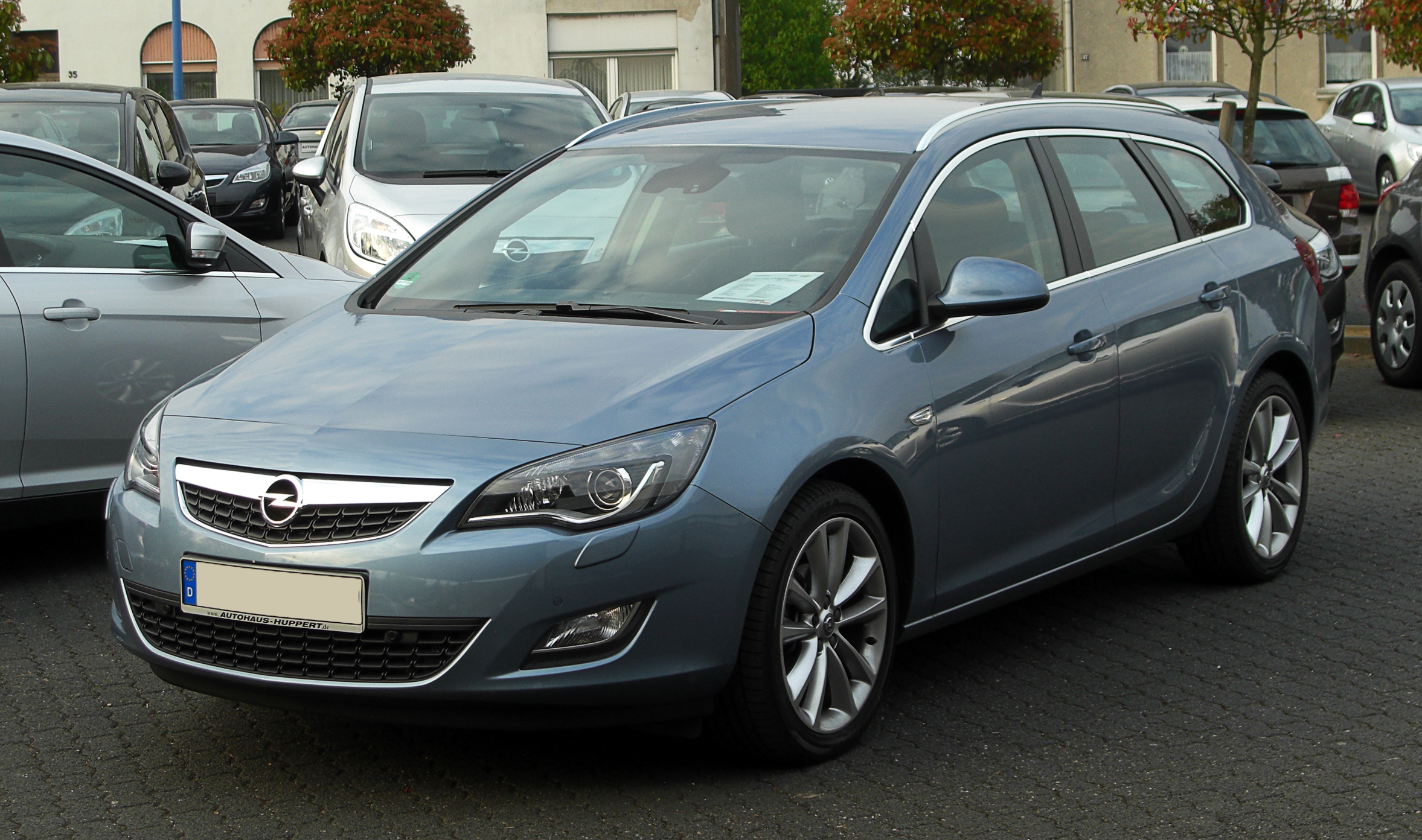 Opel Astra Sports Tourer 1.4 Turbo ECOTEC Sport (J)